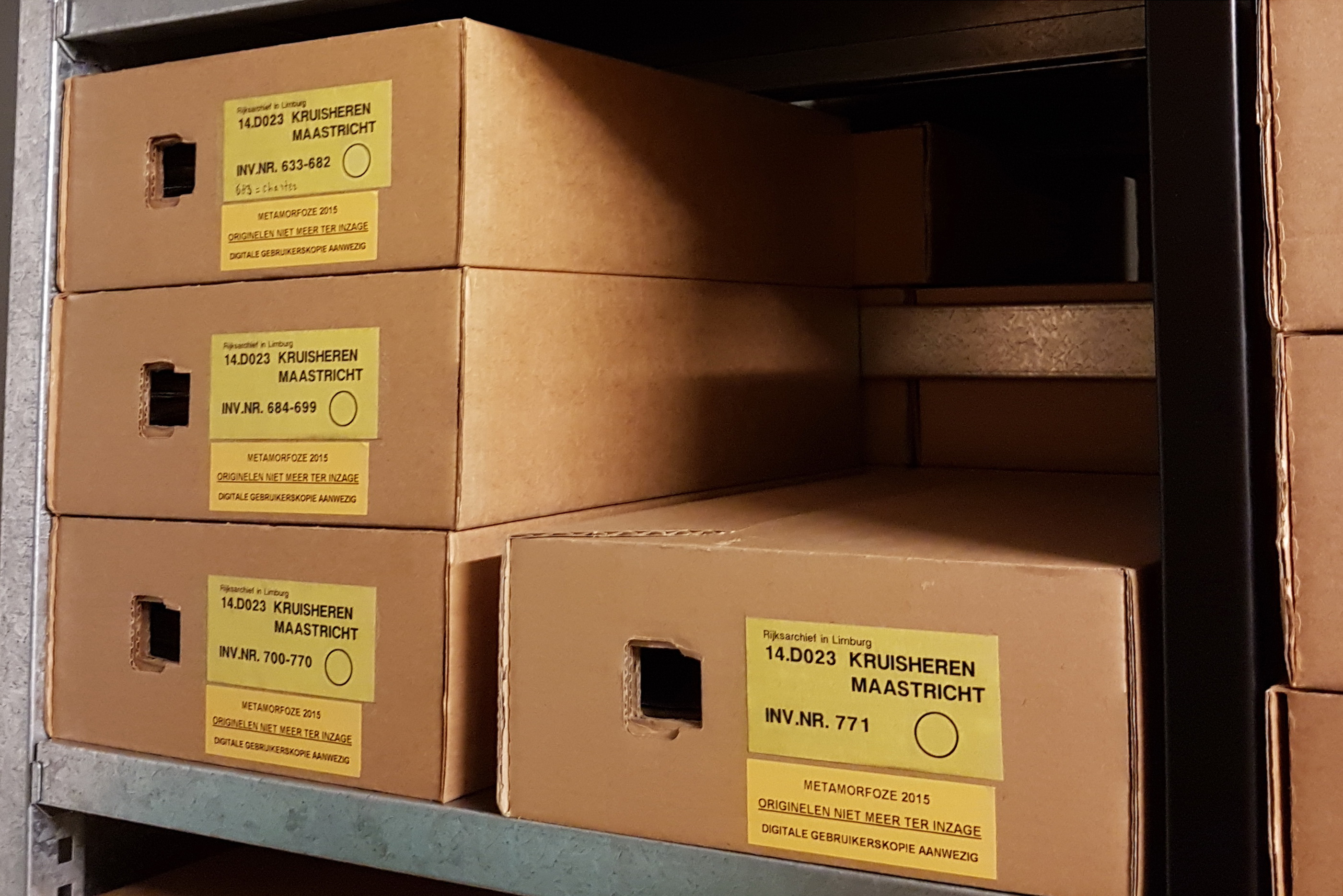 Detail of Kruisherenarchief, the archives of the former Monastery of the Croziers or Crutched Friars (1438-1796) in Maastricht, the Netherlands. It is one of 52 monastery archives in the Regionaal Historisch Centrum Limburg (RHCL) in Maastricht. Although not the most important, it is considered the most complete monastery archives in the Netherlands, Belgium and the German Rhineland.